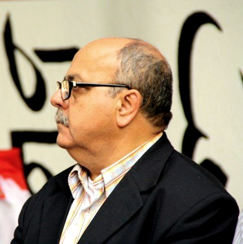 A photo for Abdulrazak Eid taken in one of the Syrian Community demonstrations in Paris against the Assad regime.